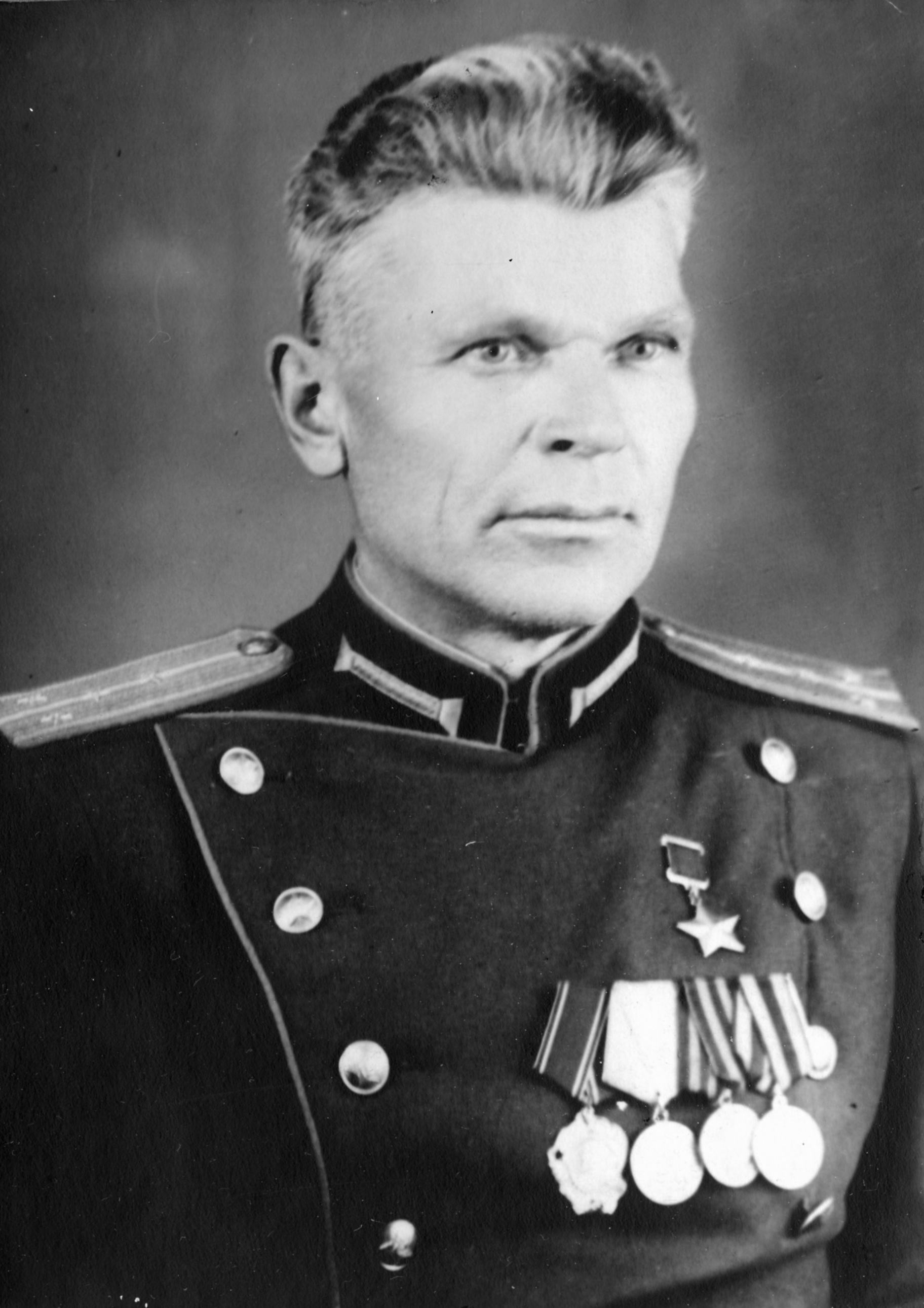 Hero of the Soviet Union Fyodor Alekseyevich Kharitonov.